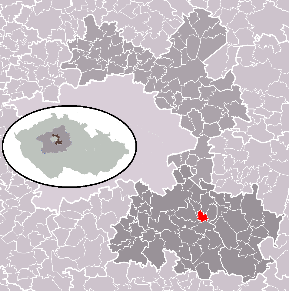 Location of Svojetice municipality within Prague-East District and administrative area of Říčany as a Municipality with Extended Competence.